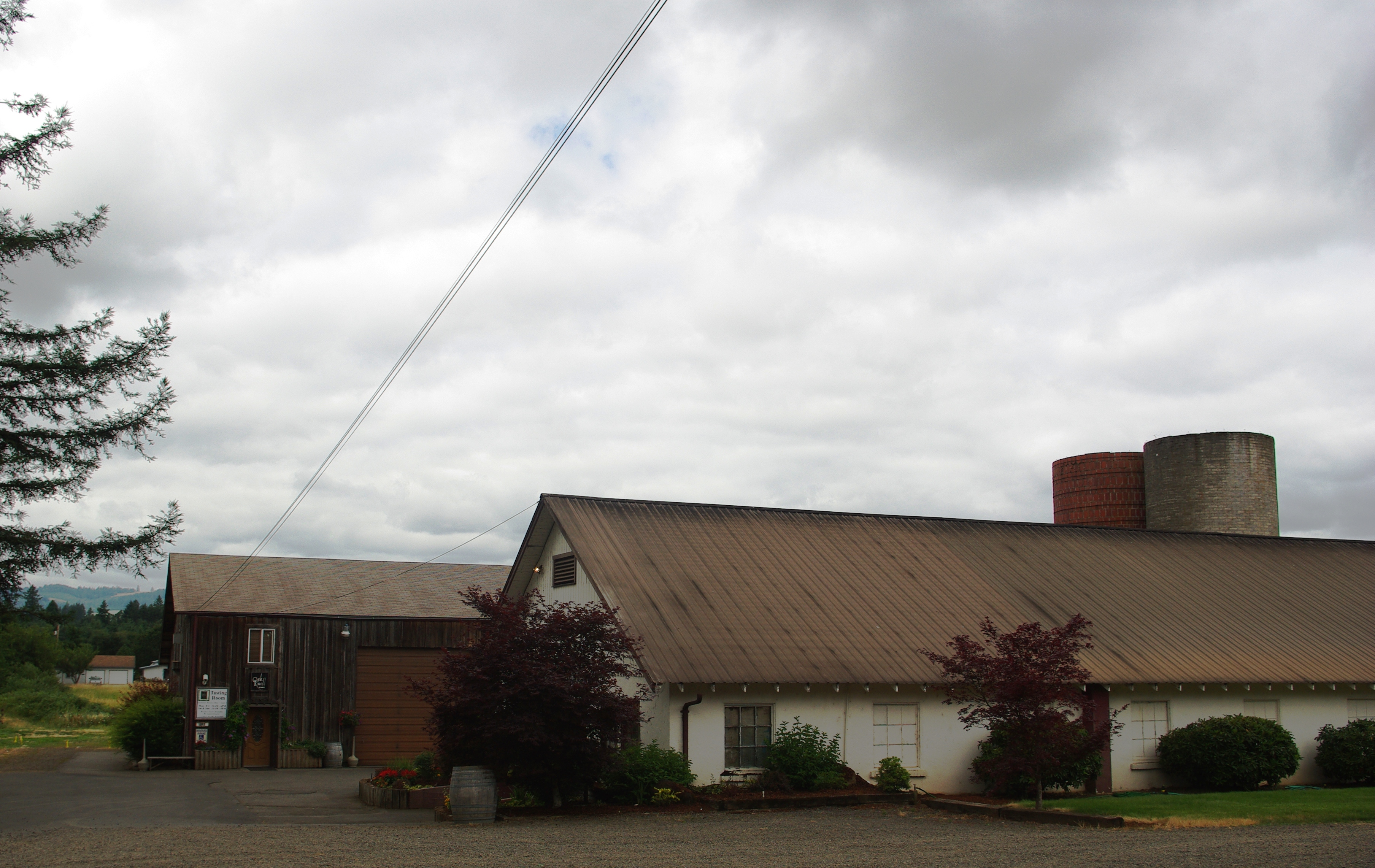 Oak Knoll Winery near Hillsboro, Oregon, USA.